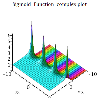 Sigmoid function complex plot